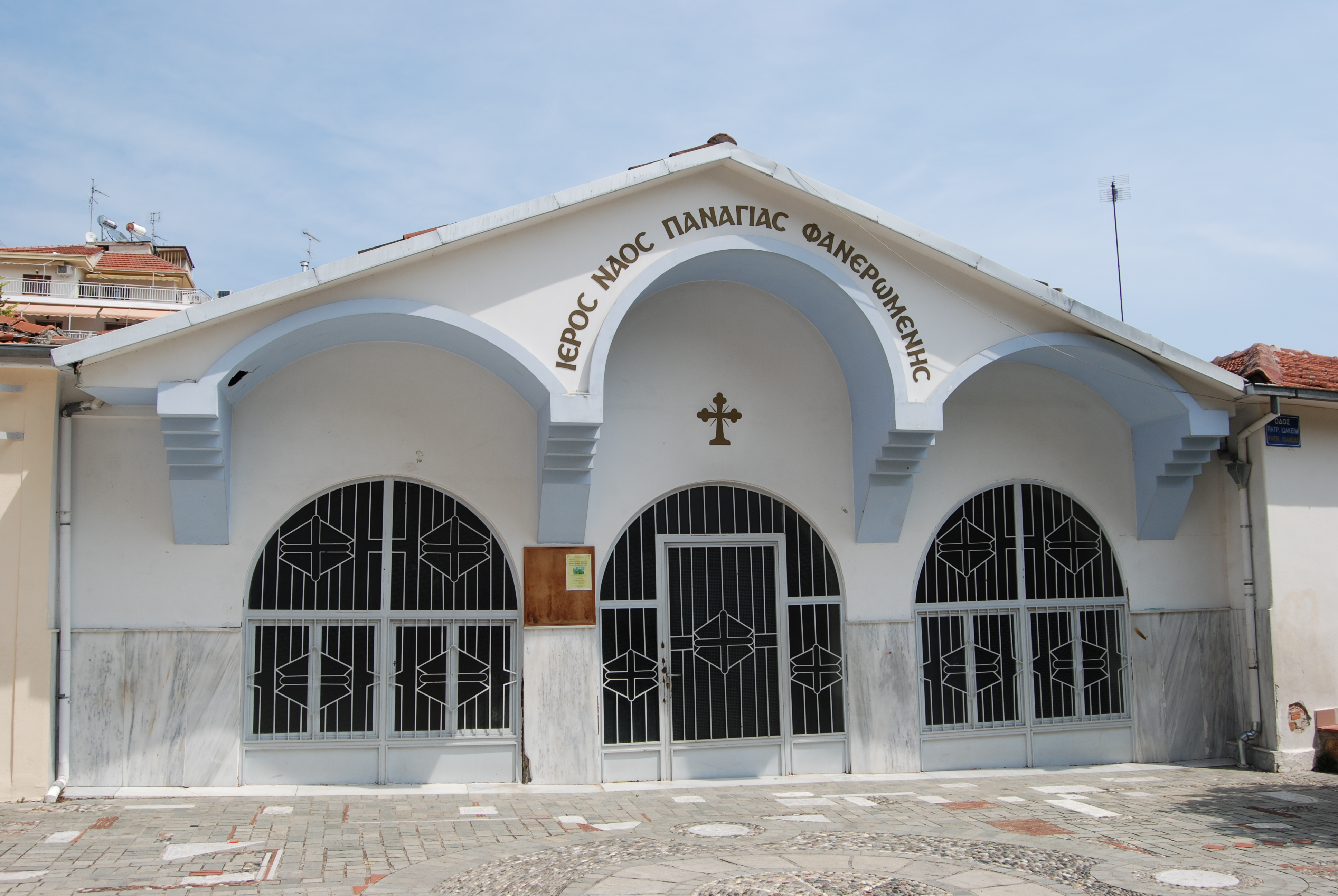 Panagia Faneromenis